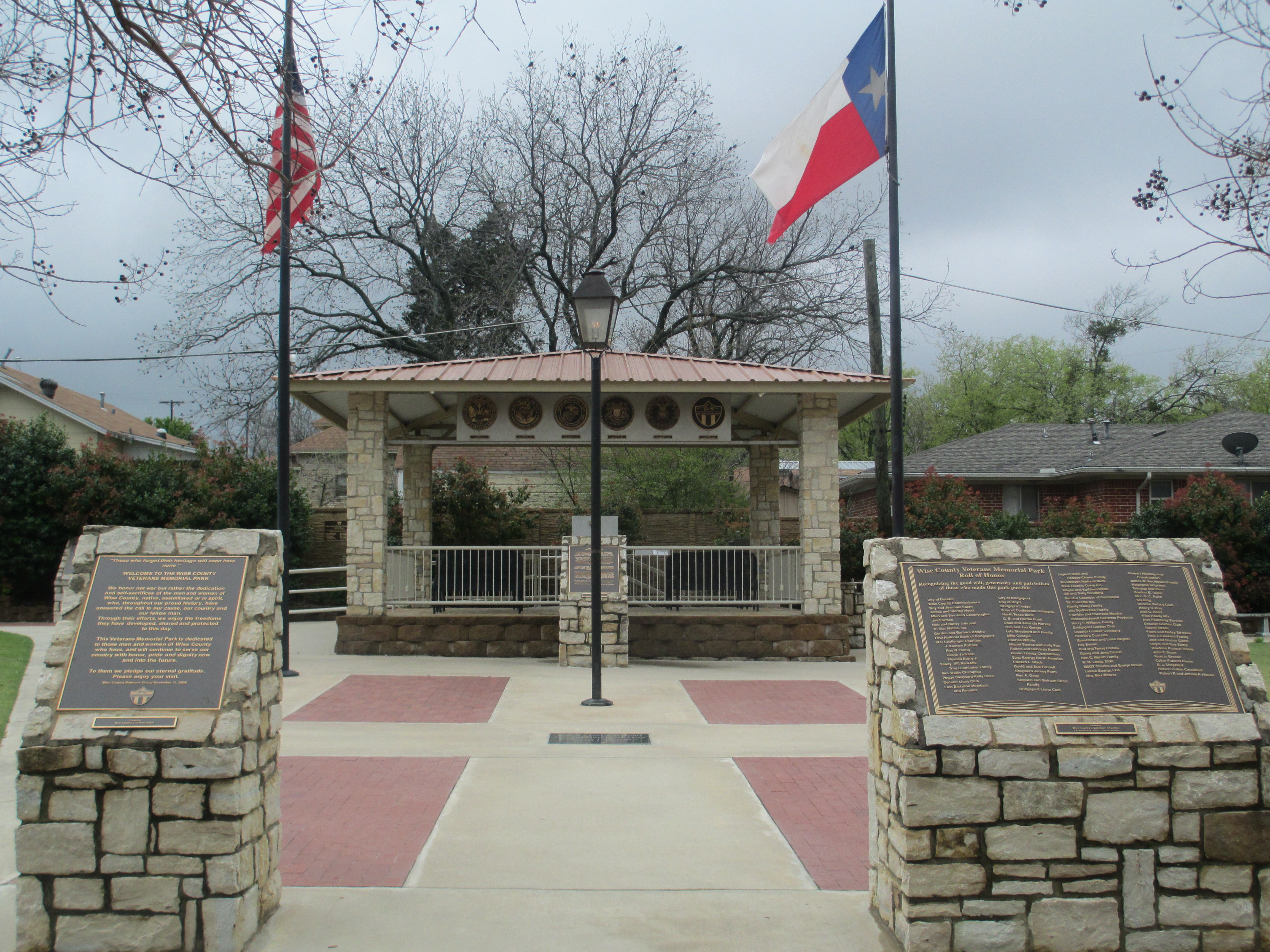 I took photo of veterans exhibit in Decatur, TX, with Canon camera, April 4, 2013.Billy Hathorn (talk) 00:33, 12 April 2013 (UTC)